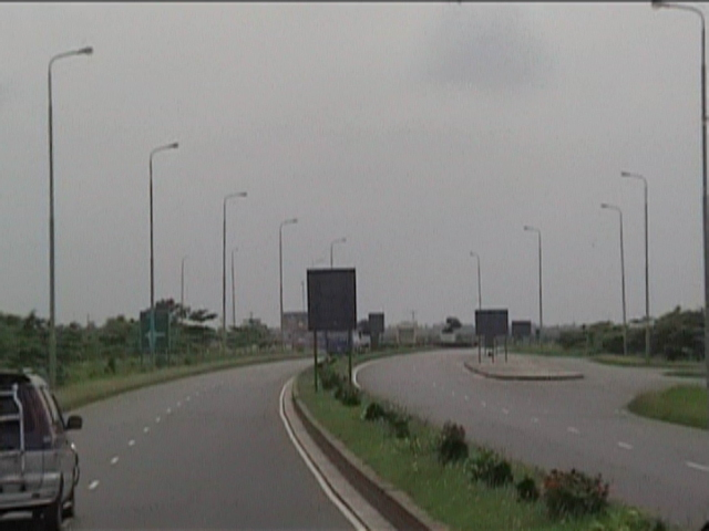 Jamuna bridge extension road, Bangladesh.